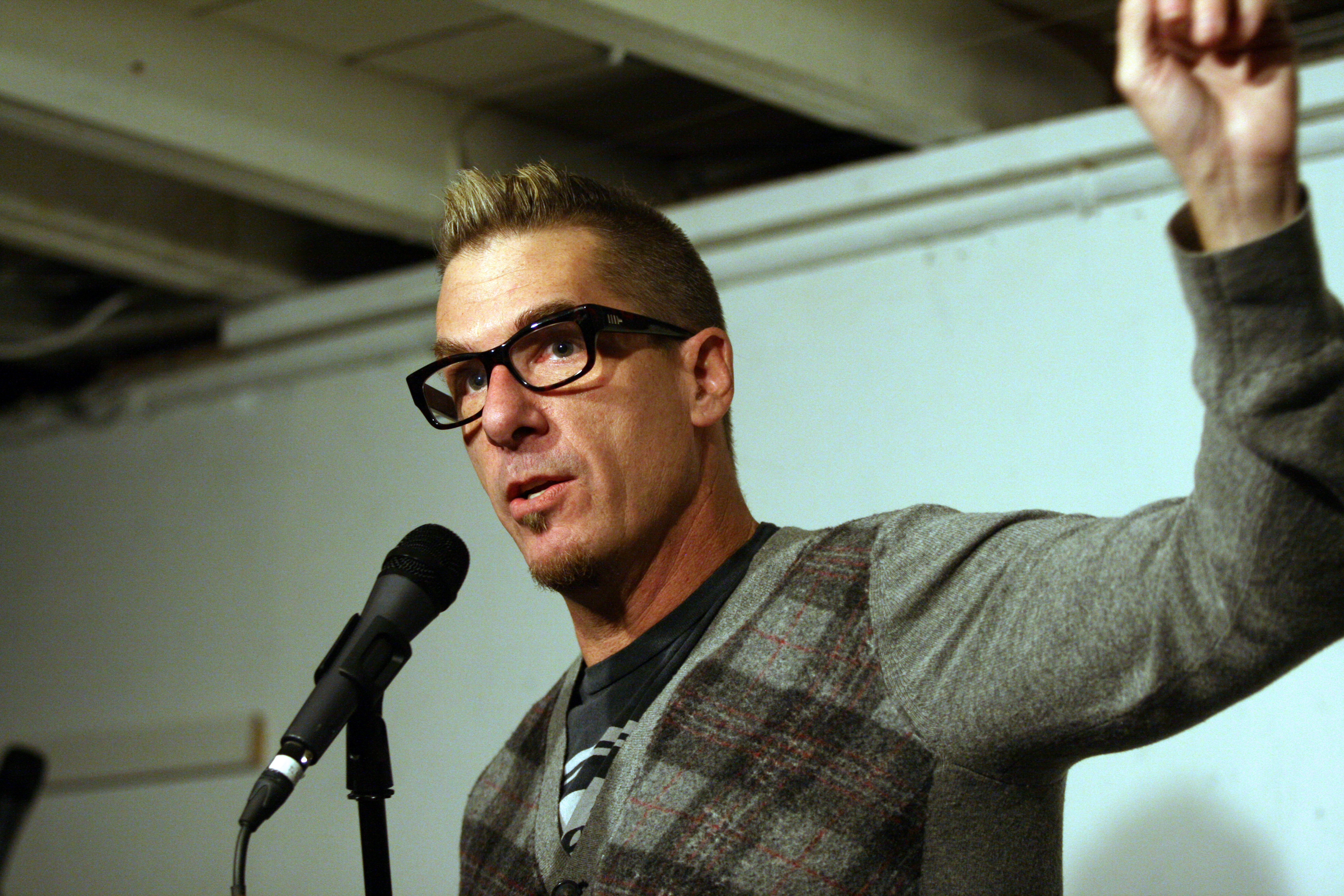 Greg Behrendt headlines the Meltdown Wednesday. 12.7.11 by Atrossity Photography